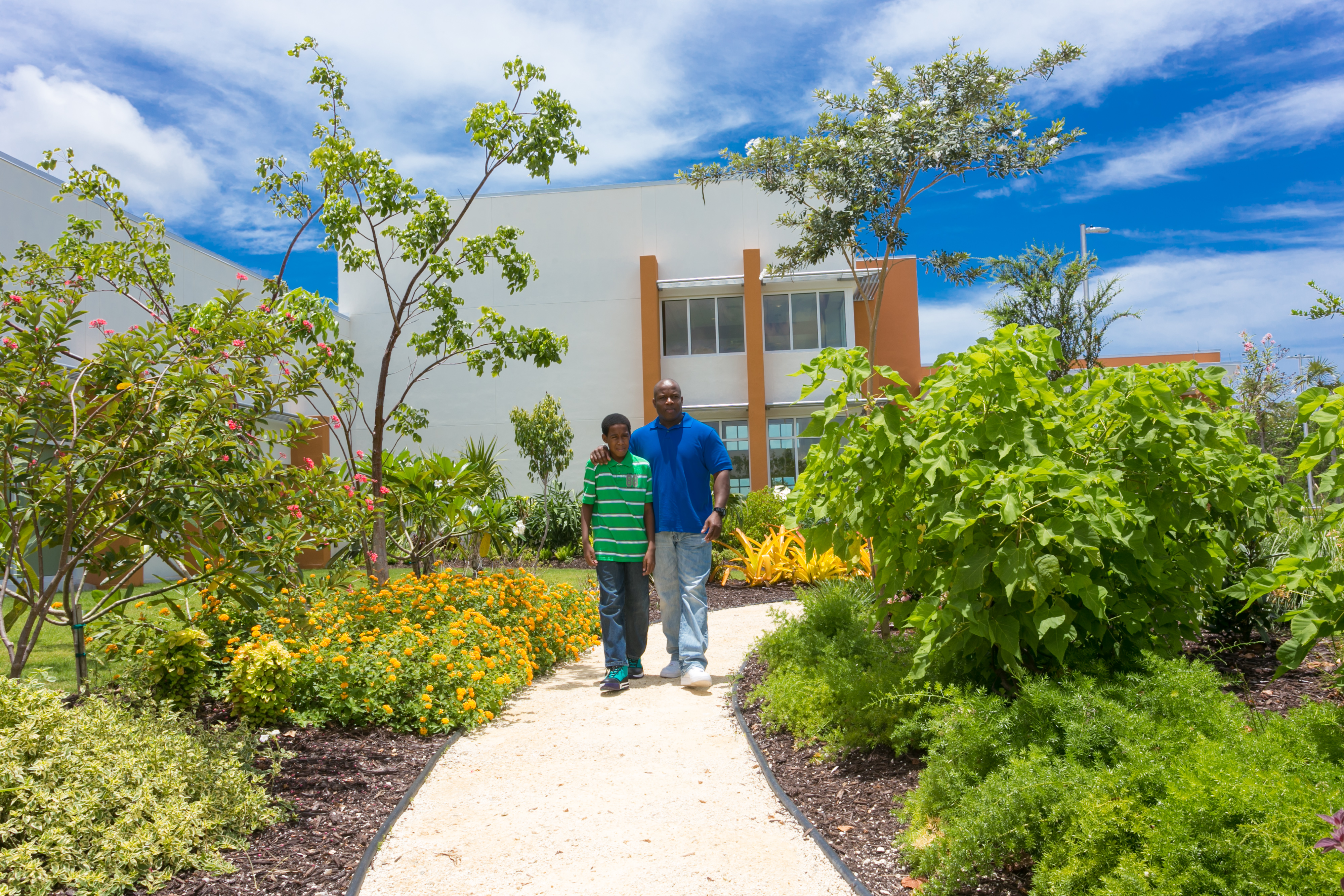 Scenic Walking Path at Health City